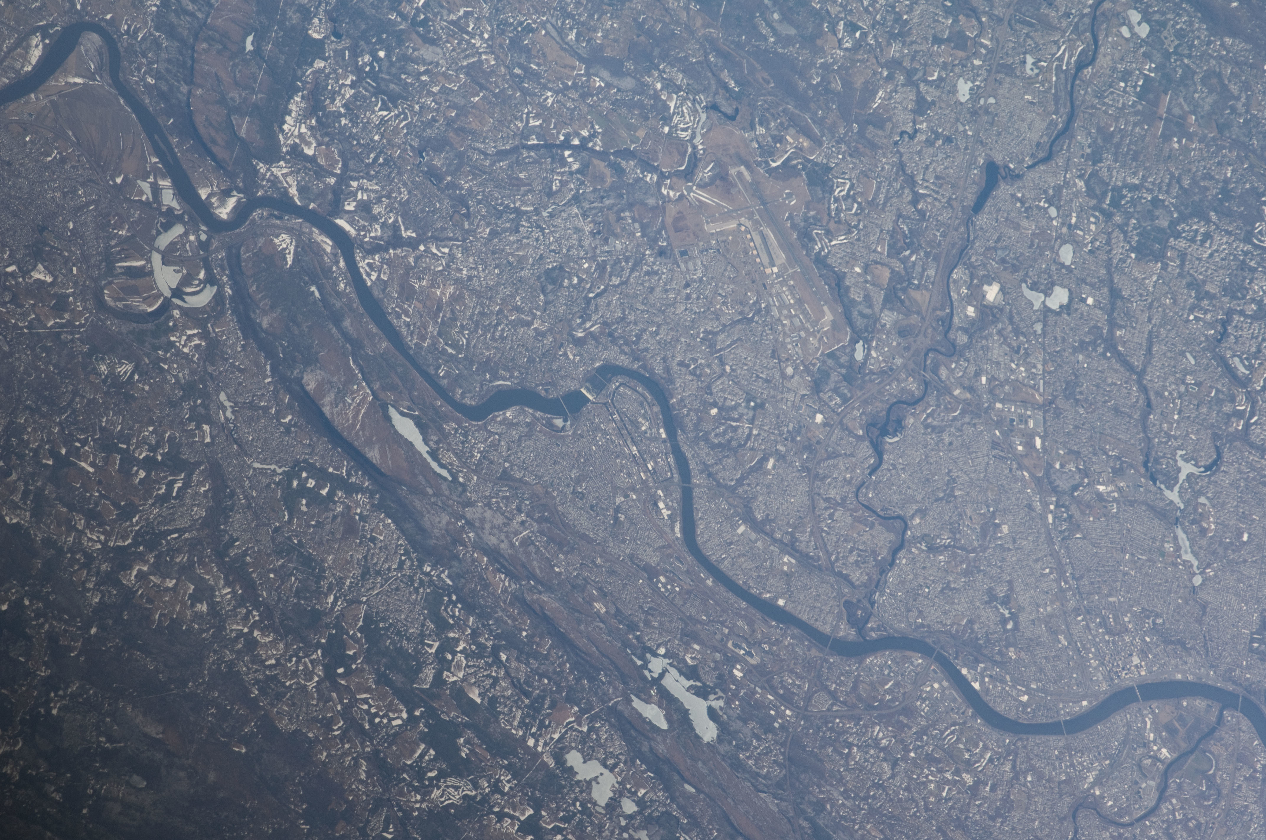 Photograph taken from the International Space Station of Holyoke, Massachusetts as well as South Hadley Falls and Chicopee, Massachusetts. Originally released as "ISS027-E-5515.jpeg"